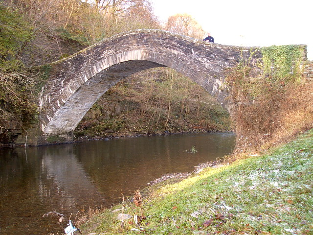 Pont Y Gwaith (Bridge of the works) This bridge was built in 1811 to access a foundry on the side of the Taff and was the replacement for an earlier timber structure.